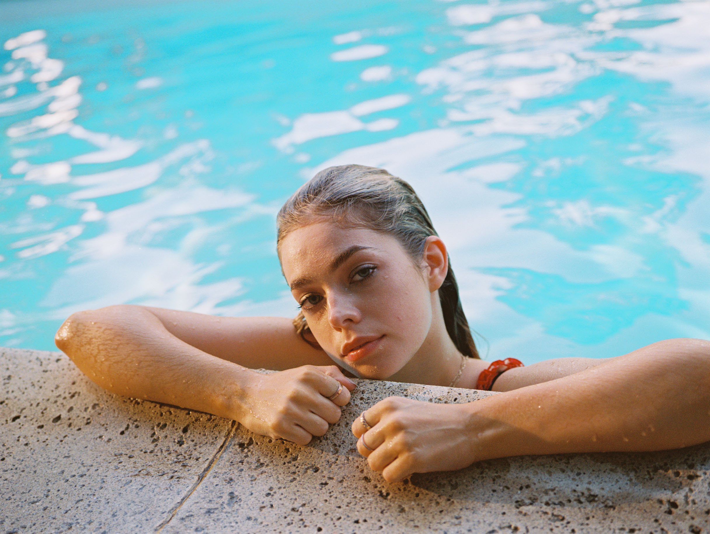 Devine in Los Angeles in July 2018